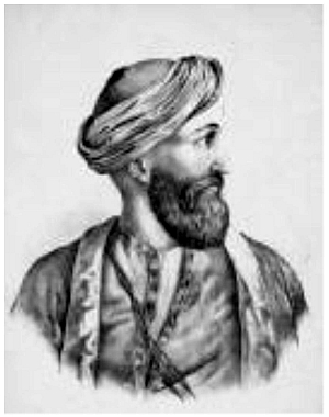 Egyptian politician and general Ali Bey Al-Kabir (1728 - 1773), circa 1760. He ruled as Mamluk Sultan of Egypt from 1760 until 1772, when the Ottoman Empire regained control of the country.